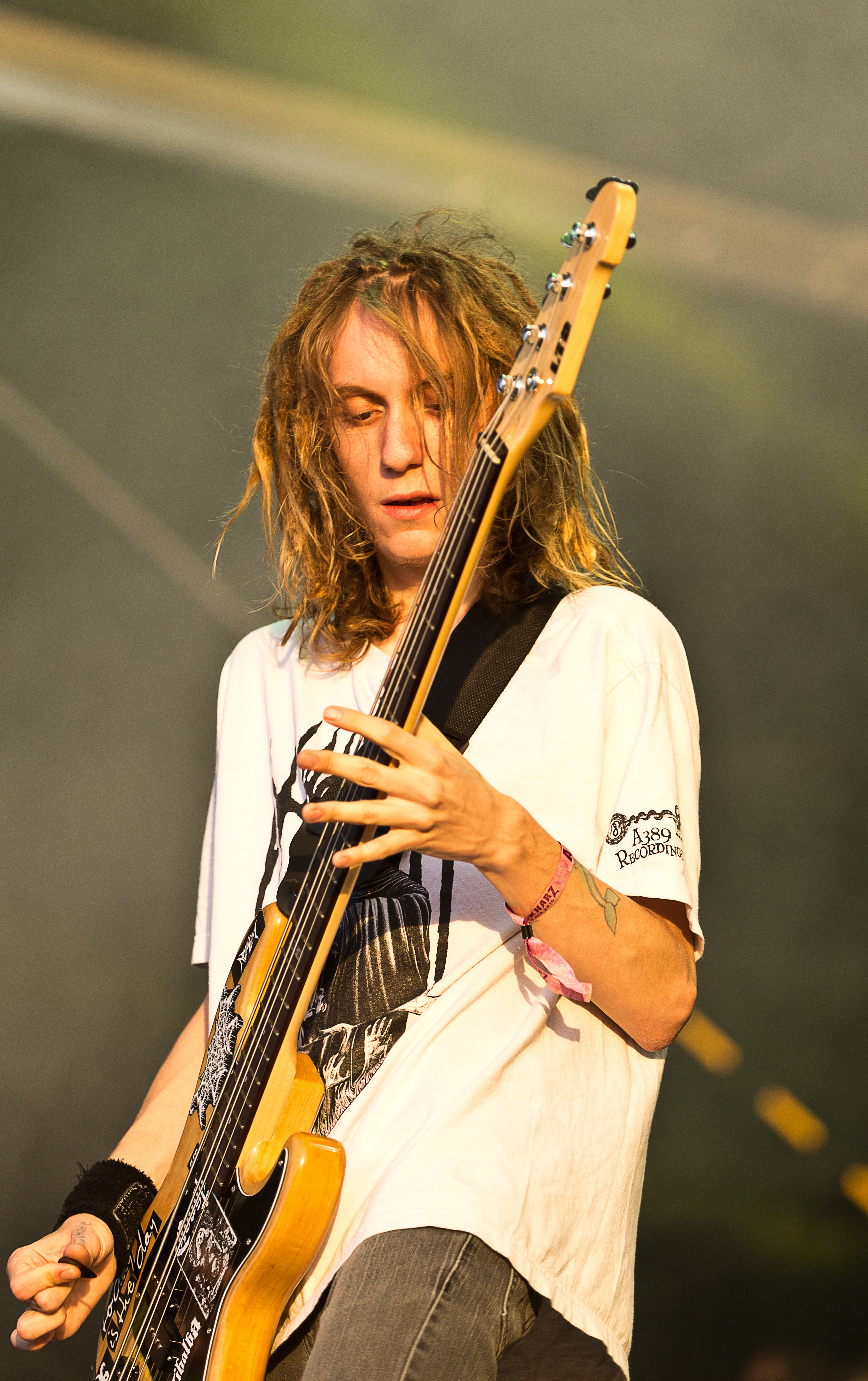 The American heavy metal band Soulfly at the Rockharz Open Air 2015 in Ballenstedt/Germany.